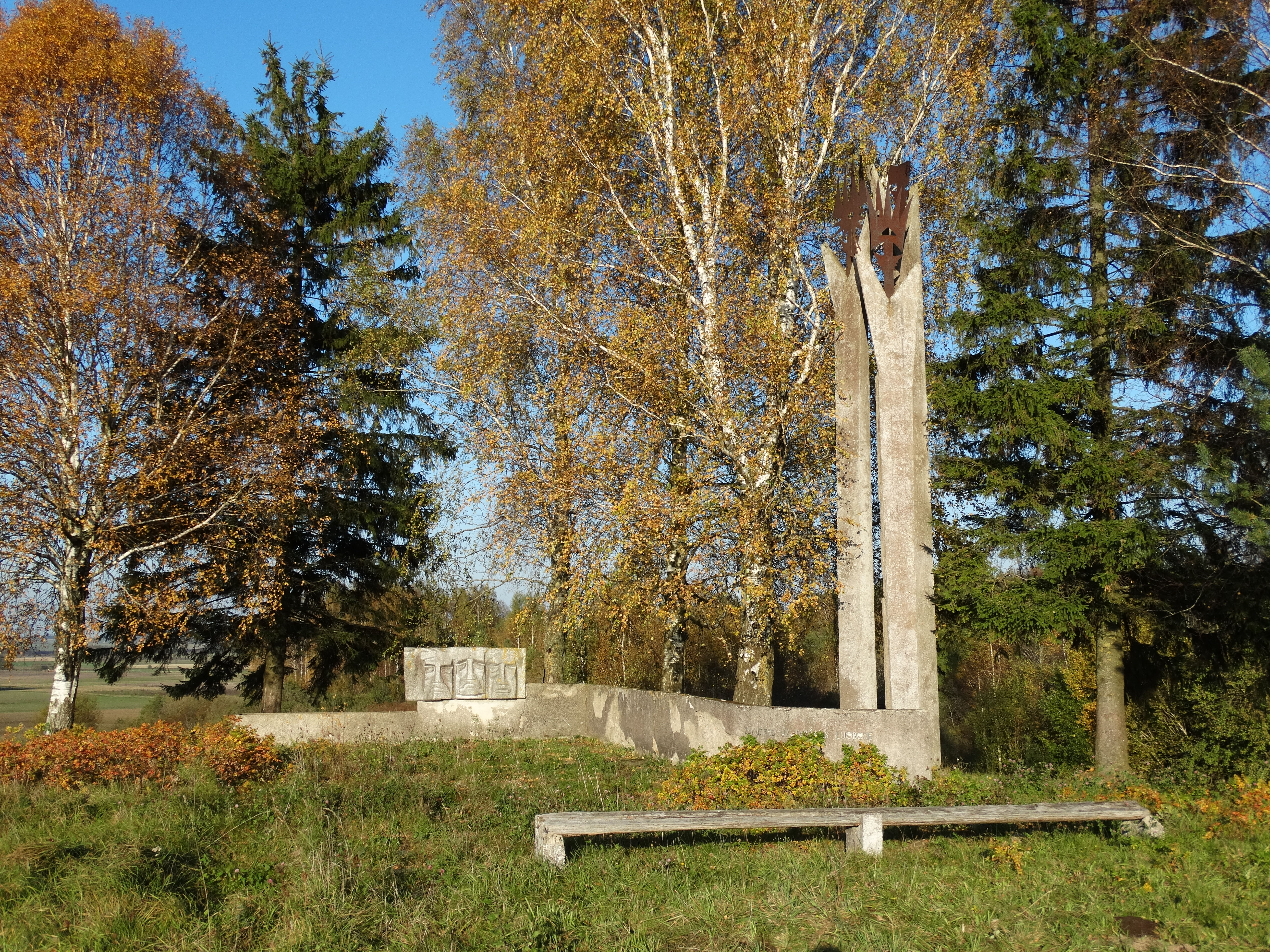 Soviet monument, Luoba, Skuodas District, Lithuania